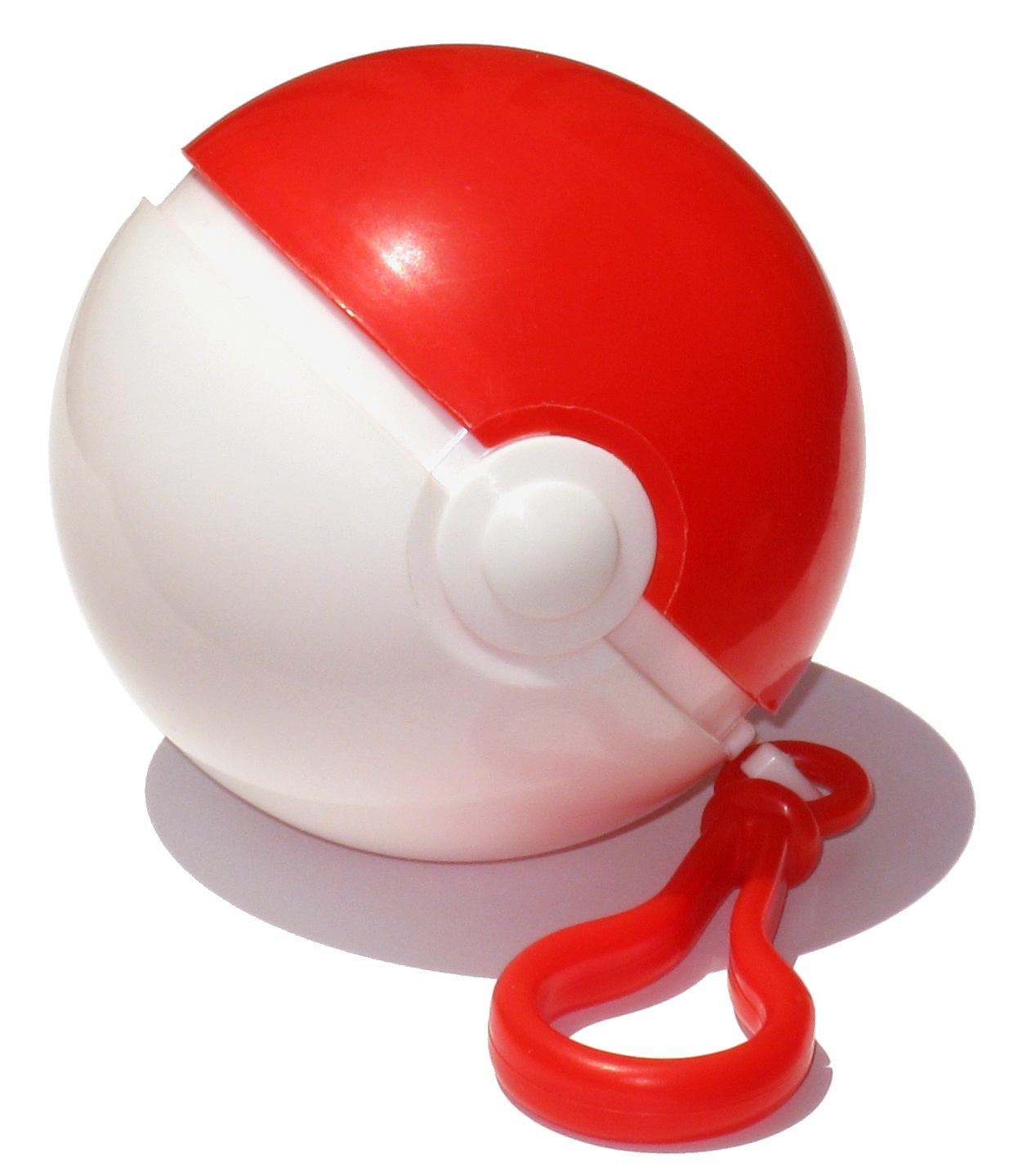 Photograph of a Poké Ball container, distributed with Burger King Kids' Meals from 1999–2000.